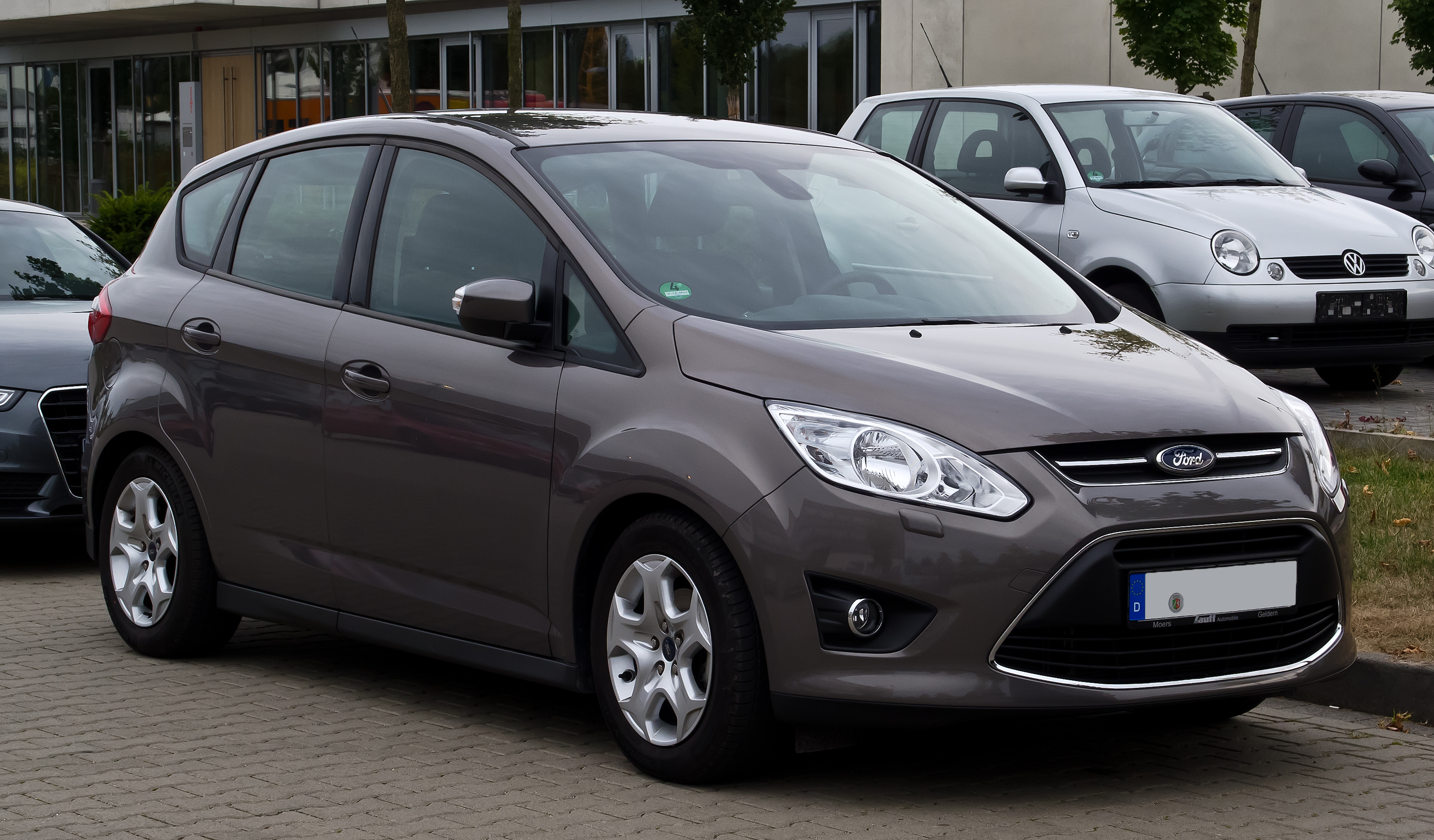 Ford C-Max 1.6 TDCi ECOnetic Trend (II)